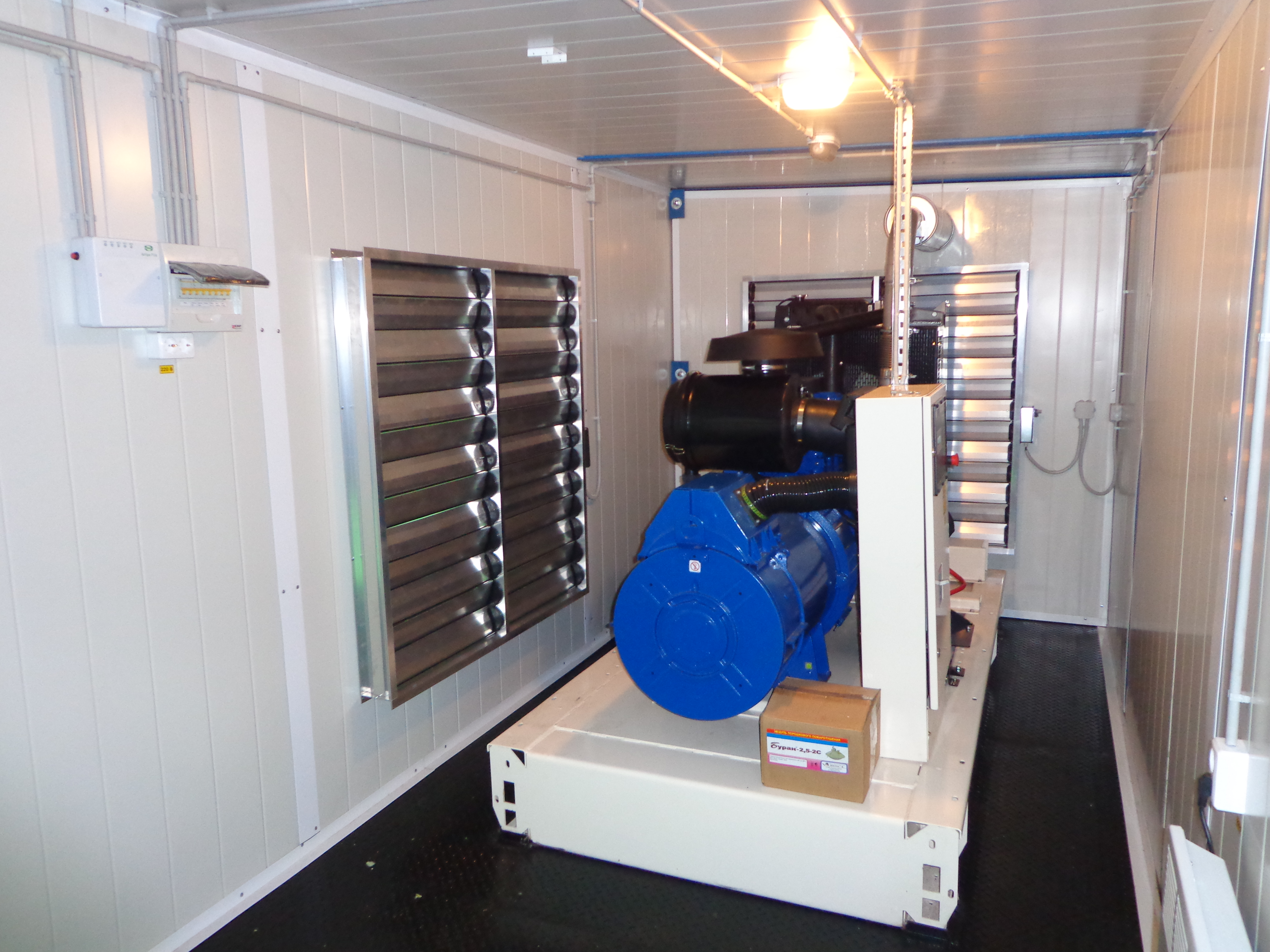 Power generators